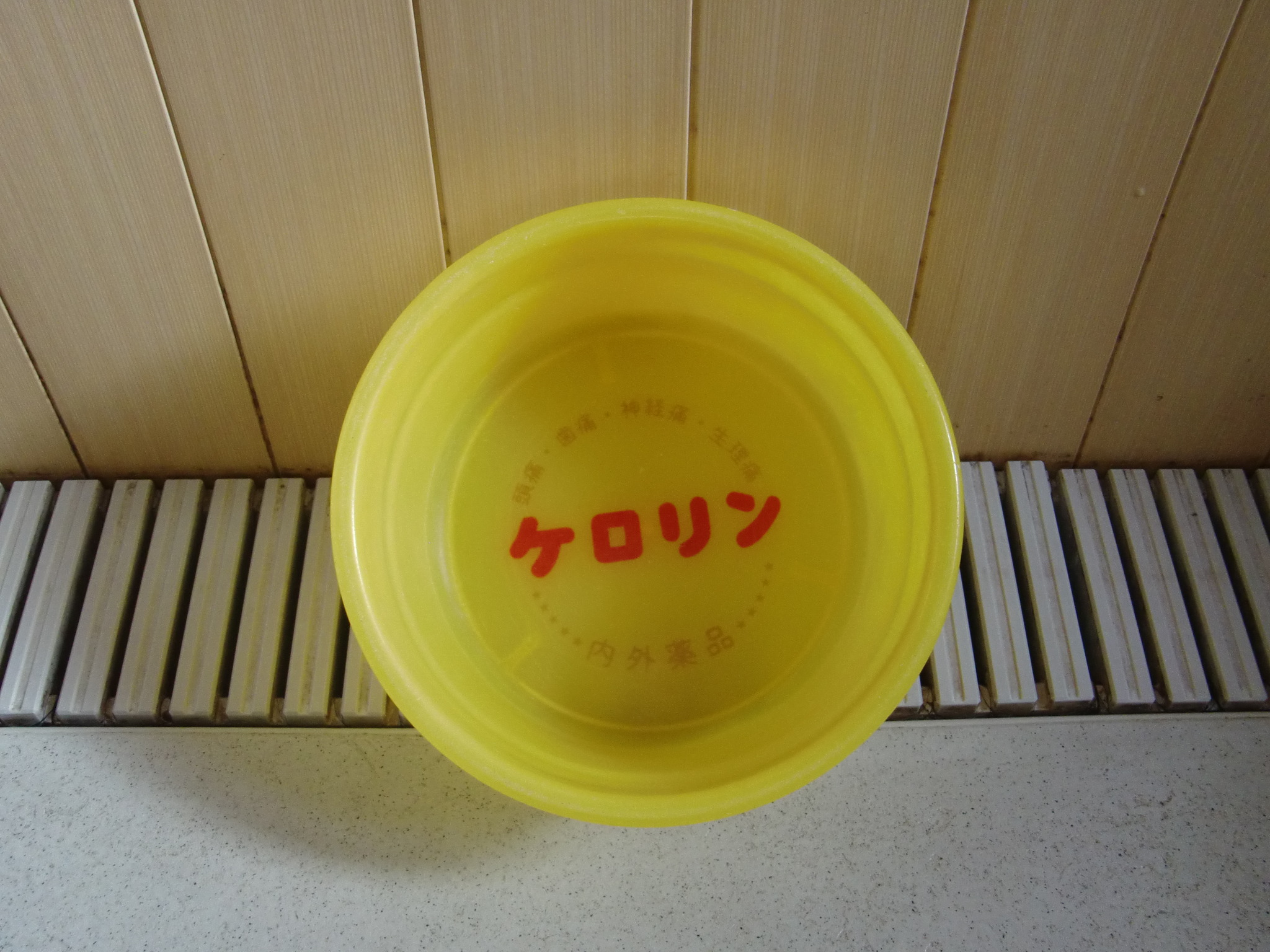 "Kerorin" Very popular bath pail in Japanese public bath